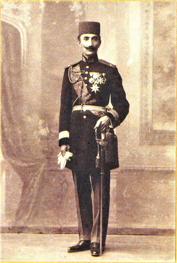 Amir Khan Amir a’lam